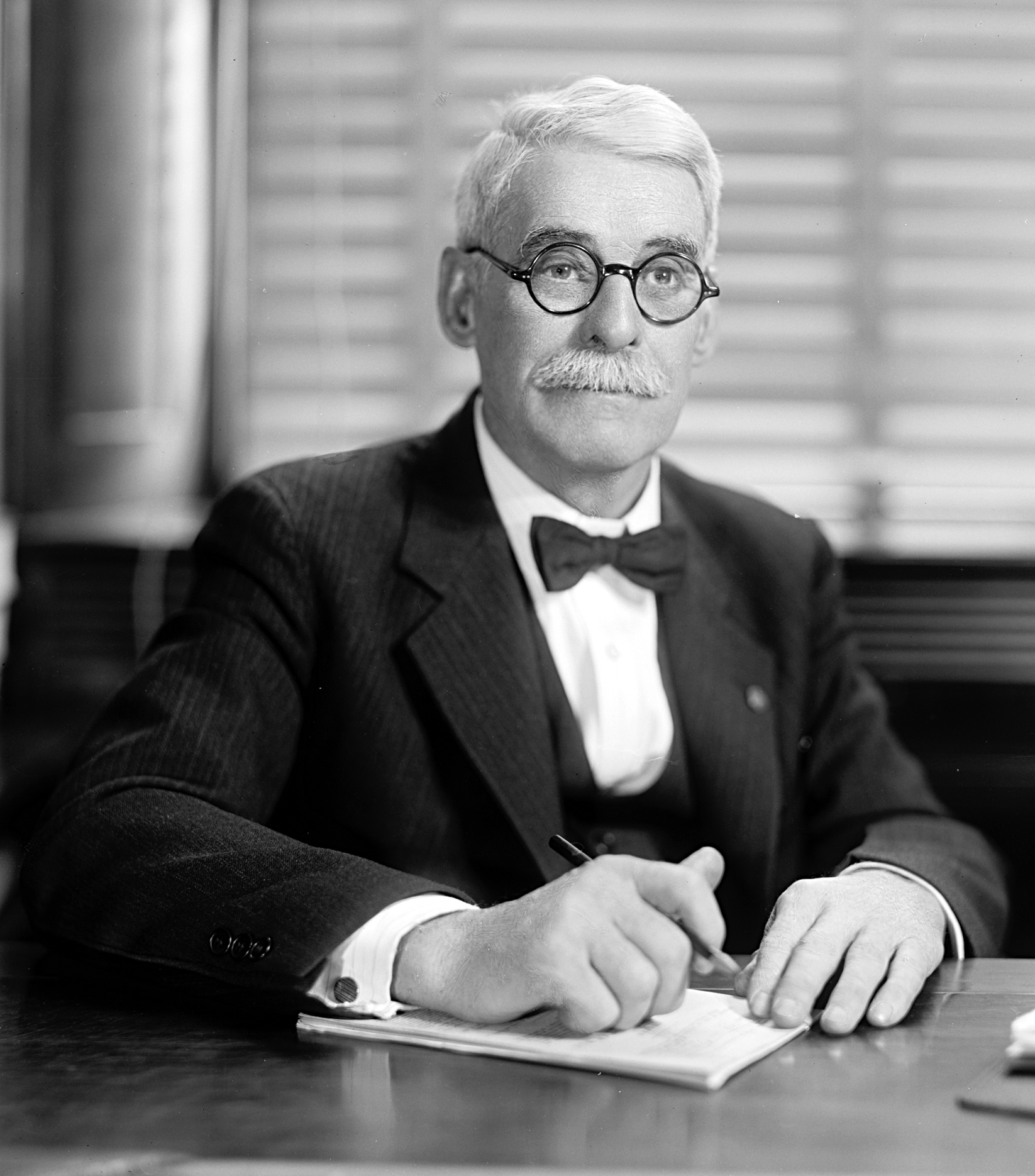 Joseph J. Mansfield, US Representative from Texas